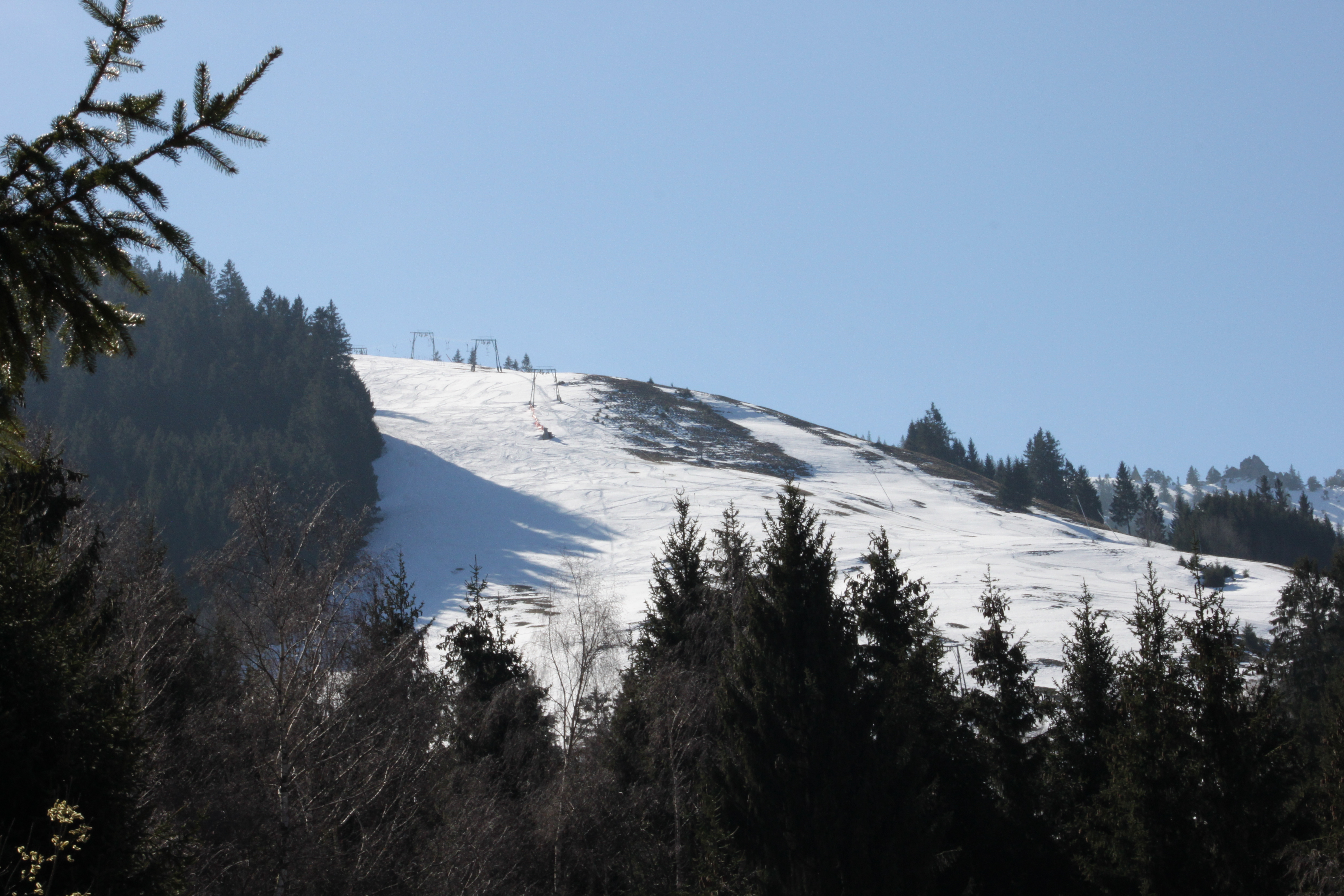 Bazora in Frastanz, Vorarlberg, Austria. Ski lift Bazora.